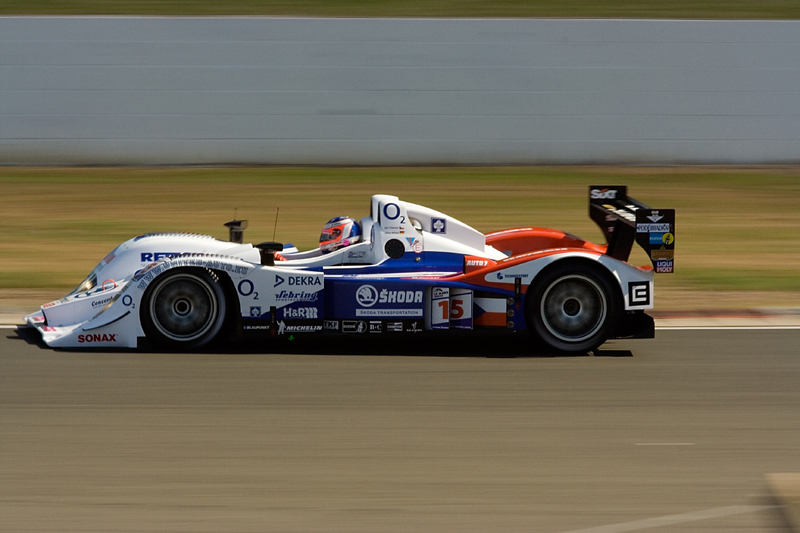 Stefan Mücke driving a Lola B07/10 of Charouz Racing System at 1000km of Silverstone 2007.